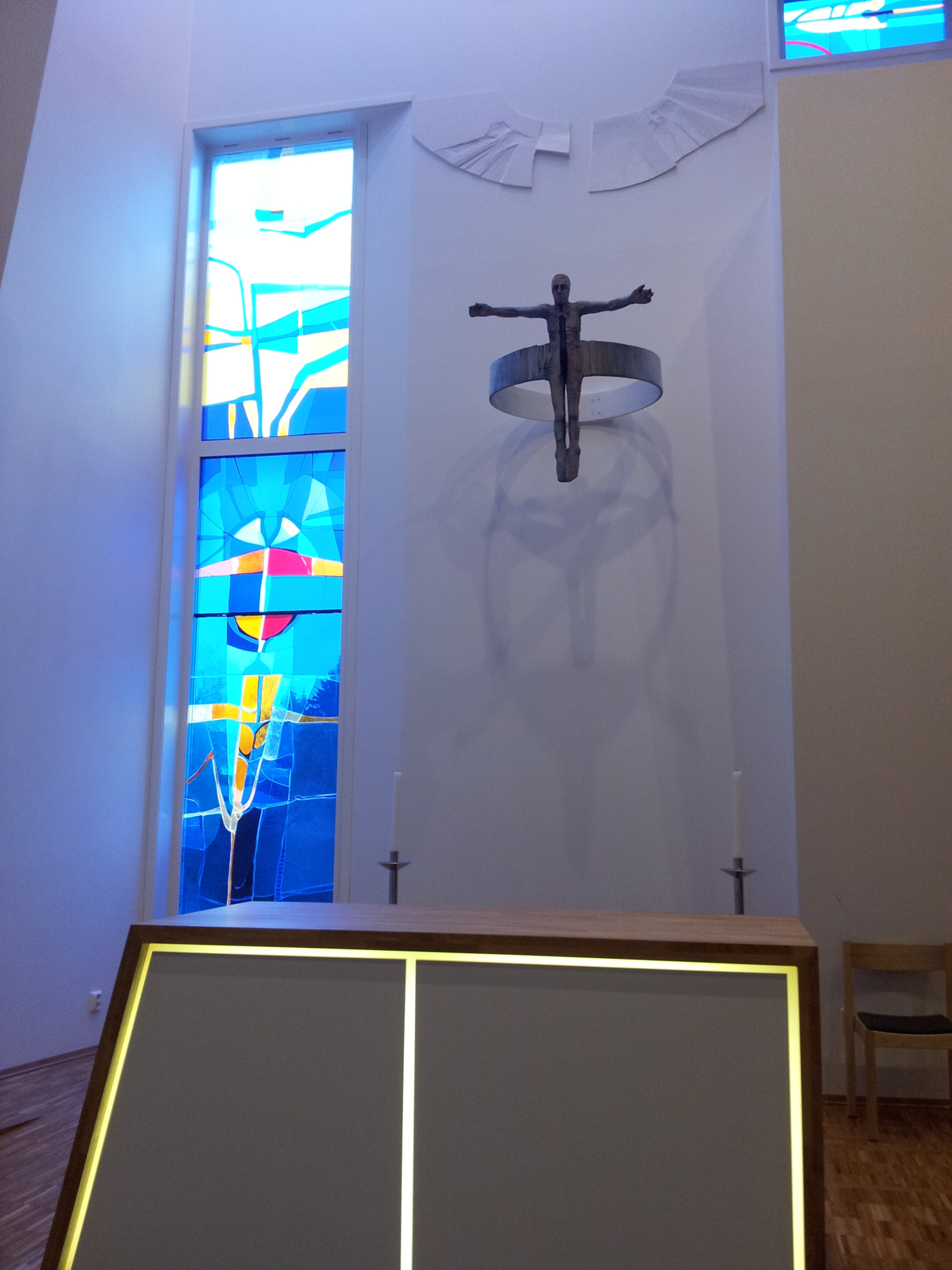 Altar piece in Ytrebygda kirke in Bergen, Norway